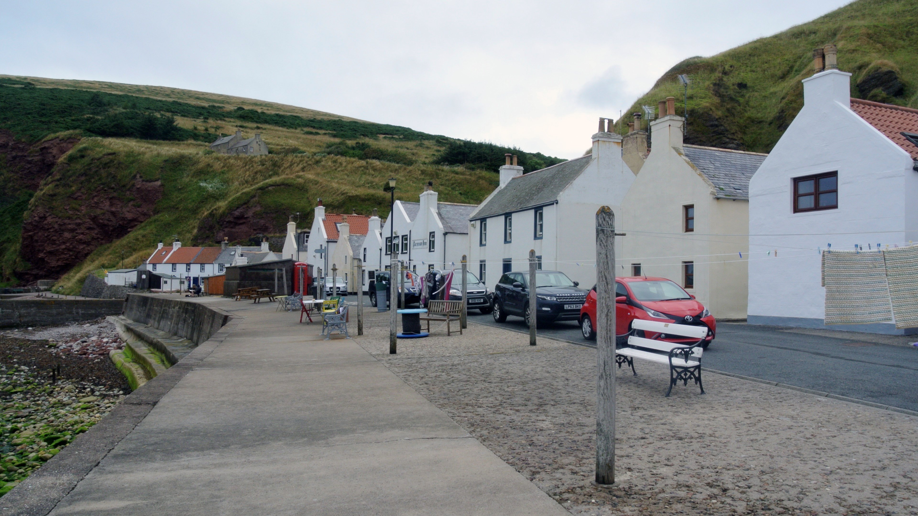 The village Pennan, in Scotland.